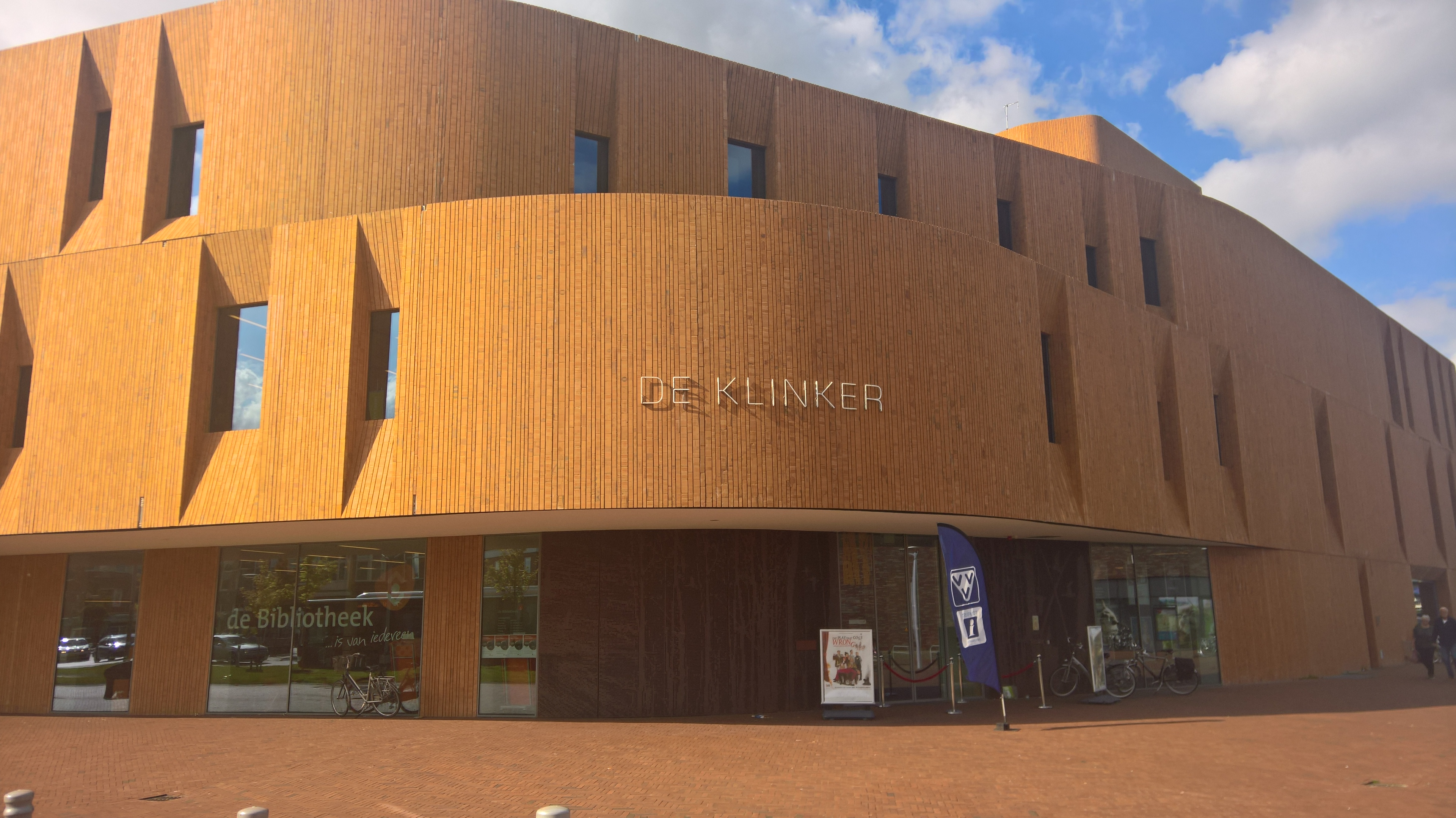 The culture house 🏠 of the city of Winschoten.